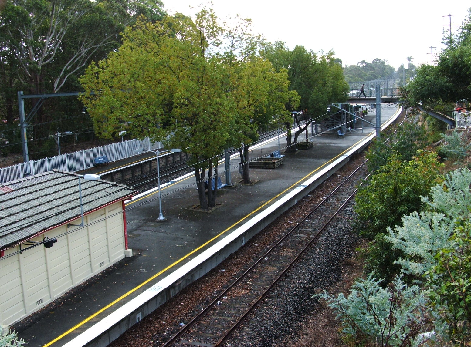 Thornleigh railway station, Sydney